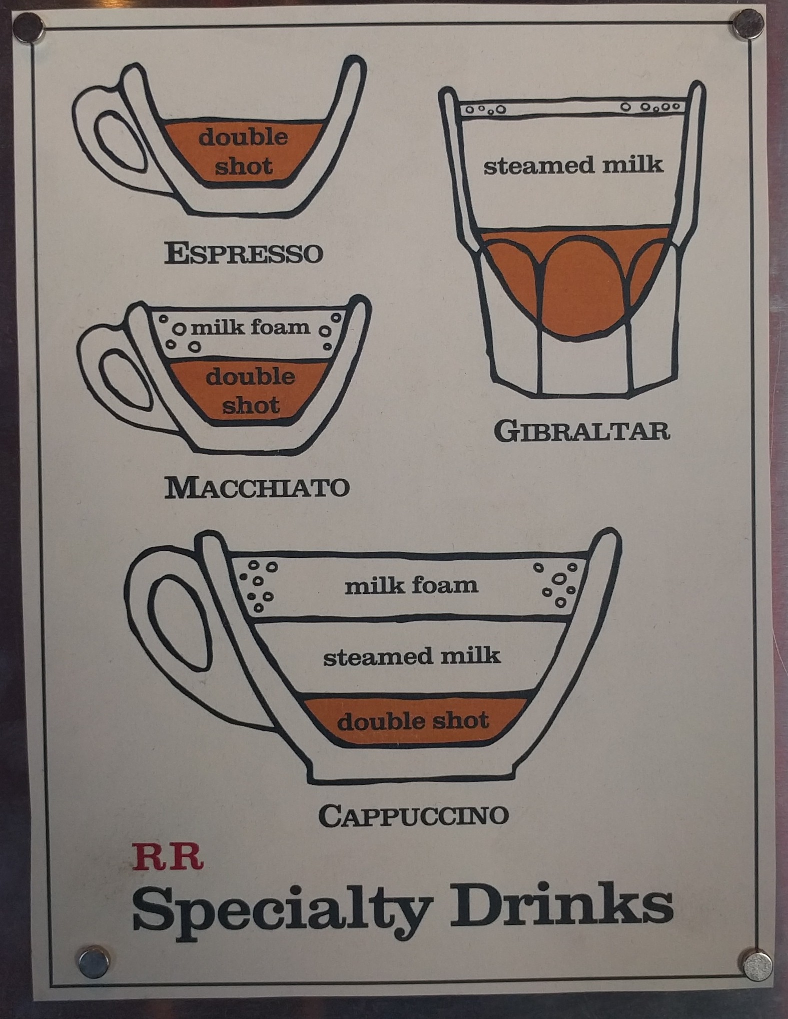 A framed diagram of specialty coffee drinks – Espresso, Macchiato, Gibraltar, and Cappuccino – at Red Rock Coffee, Mountain View, California, USA